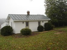 Black Meadow; Originally a "duplex" slave quarters, is now a single room cottage.